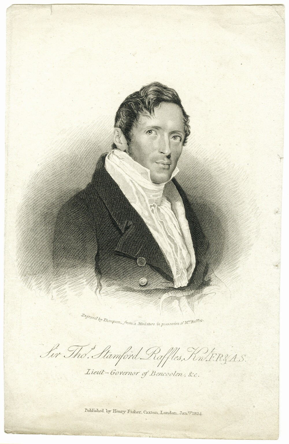 Thomas Stamford Raffles ("Engraved by Thomson, from a Miniature in possession of Mr. Raffles")